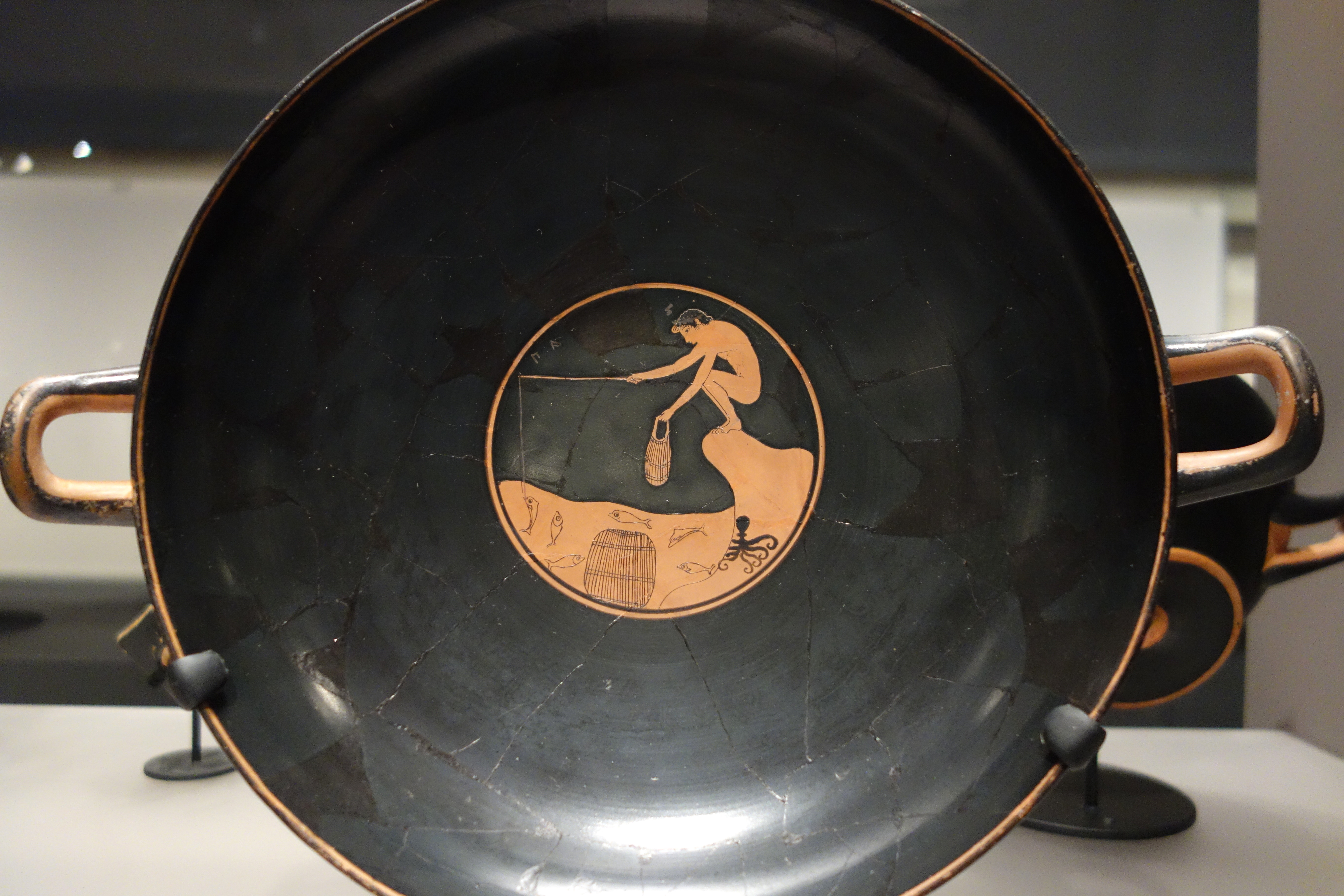 Kylix (cup) by the Ambrosios Painter, Athens, Greece, probably found in Italy, Archaic period, c. 510-500 BC, ceramic with red-figure technique - Museum of Fine Arts, Boston, Massachusetts, USA. This artwork is in the public domain because the artist died more than 70 years ago.